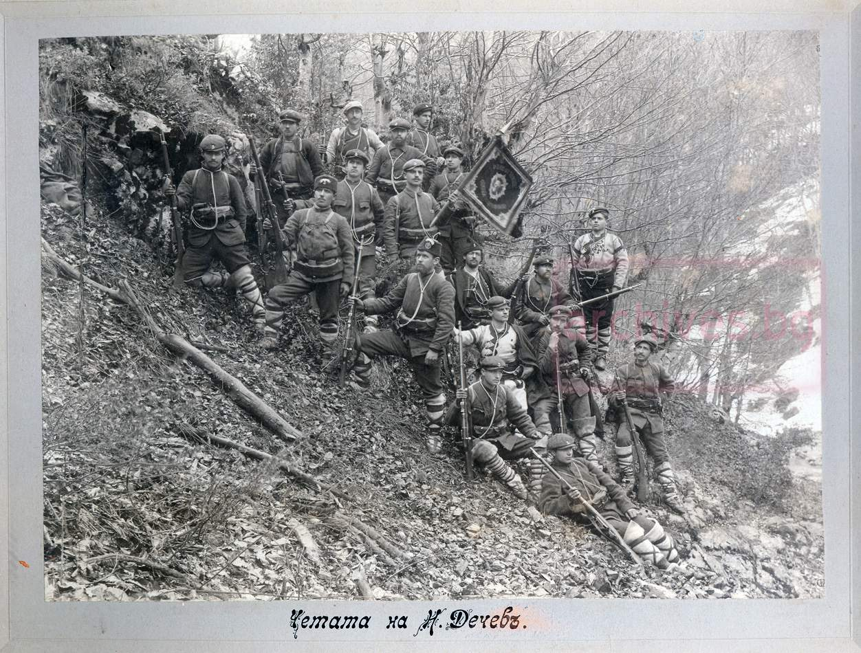 IMARO cheta of Nikola Dechev - Veles region